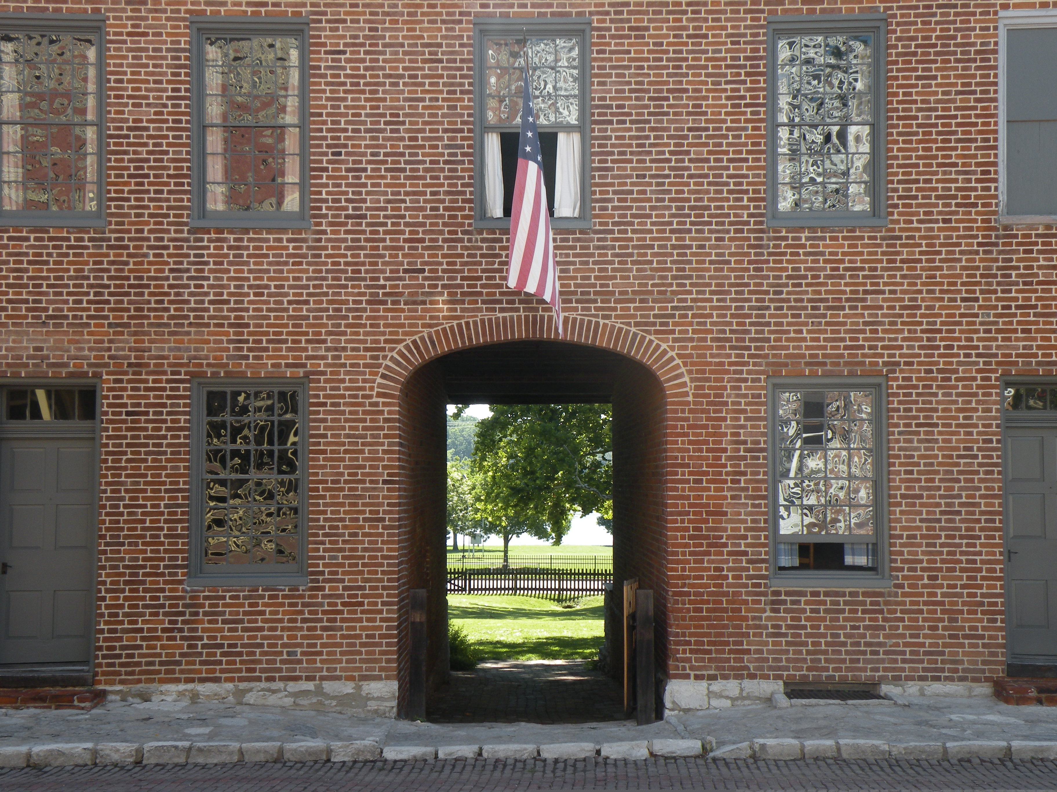 This building in St. Charles served as the first state capitol building of Missouri. The legislature met on the second floor from 1821 to 1826 while the new capitol in Jefferson City was being built.